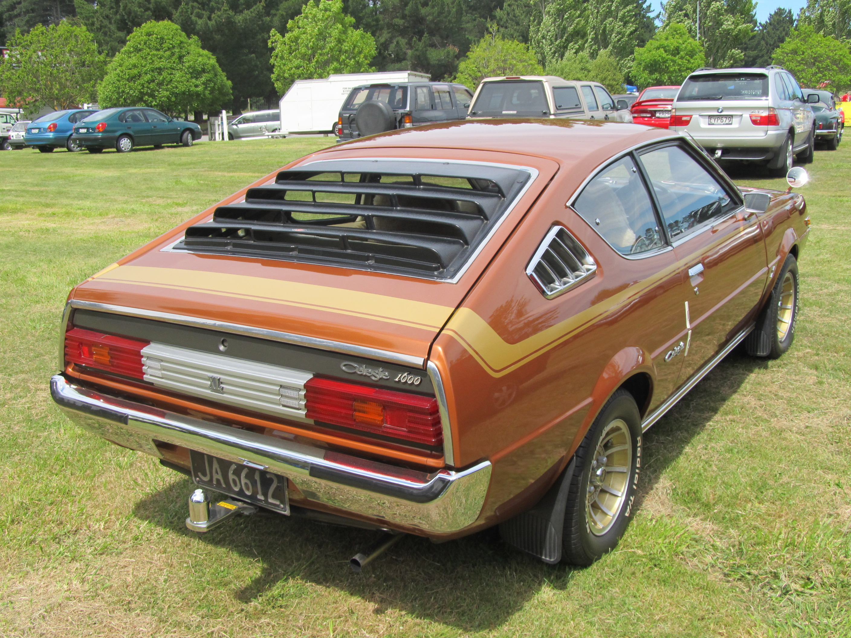 JA6612 Everything about this just screamed 70s, from the rear window louvres to the period aftermarket mag wheels. This would make a fantastic movie prop...